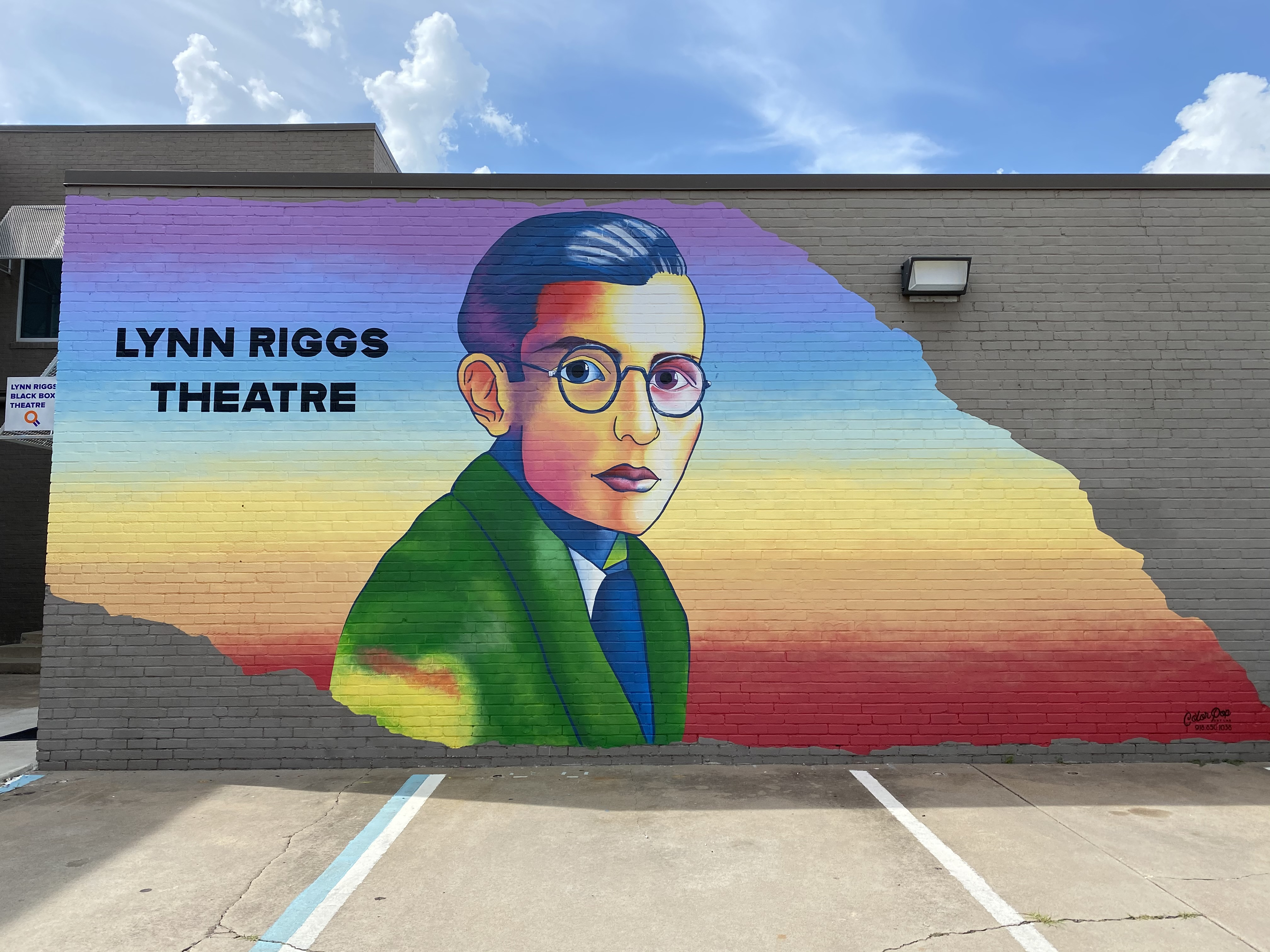 The Lynn Riggs Theatre at the Dennis R. Neill Equality Center